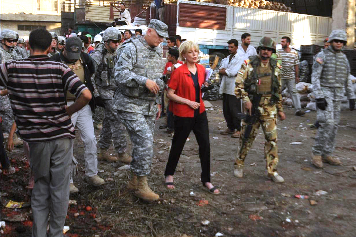 U.S. Army Gen. Raymond T. Odierno, commander, Multinational Force Iraq, answers questions from 60 Minutes reporter Lesley Stahl during his visit to the People's Market in the Sadr City district of Baghdad, Iraq, Sept. 18, 2008. U.S. Air Force photo by Tech. Sgt. Cohen A. Young.